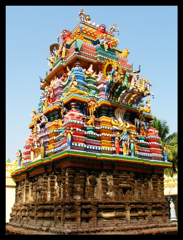 Full view of the main temple at Antarvedi. this temple is said to be constructed between 15th and 16th centuries. most South Indian temples have this kind of architecture.